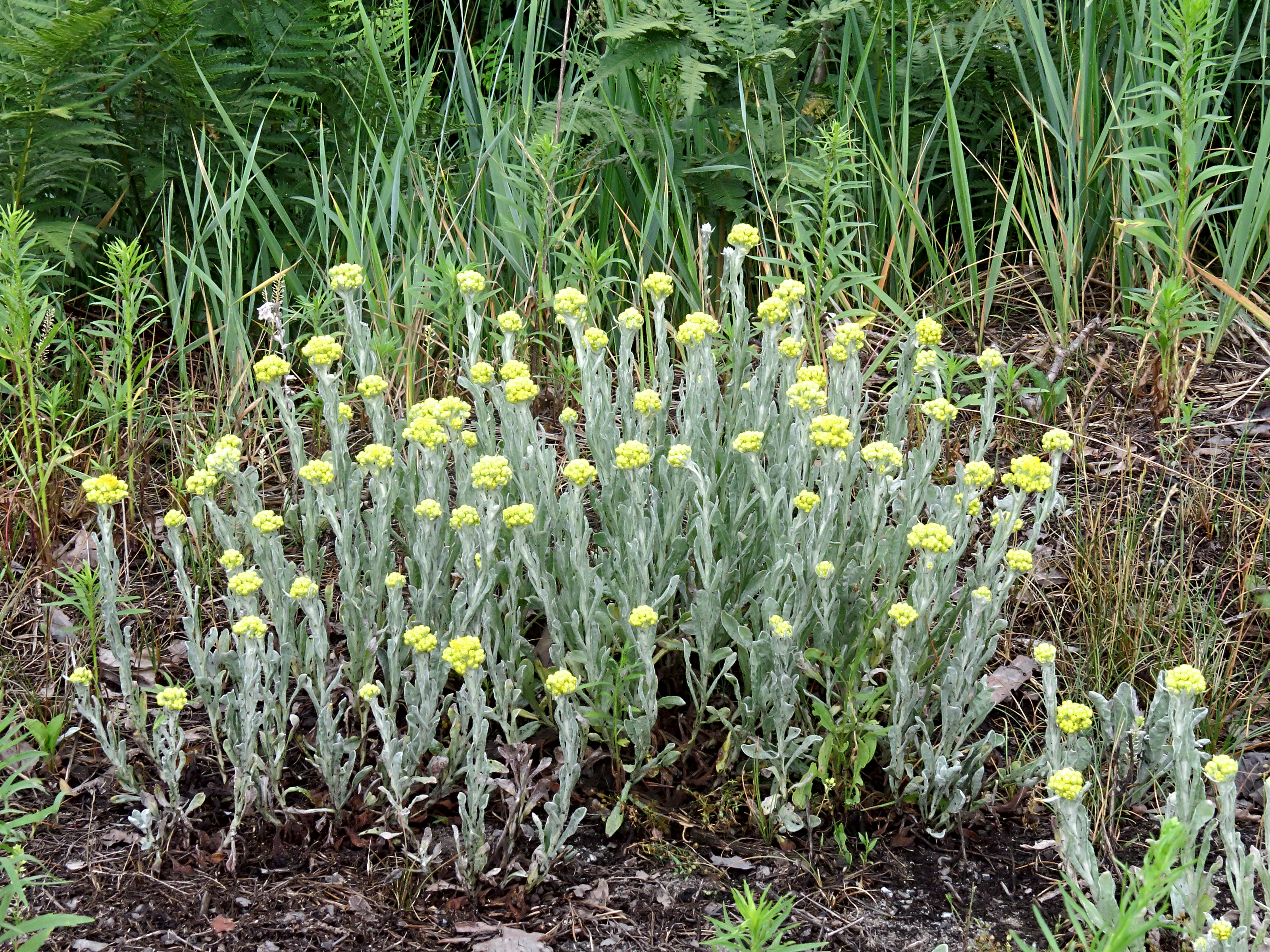 Helichrysum arenarium. Borodianka raion, Kiev oblast, Ukraine